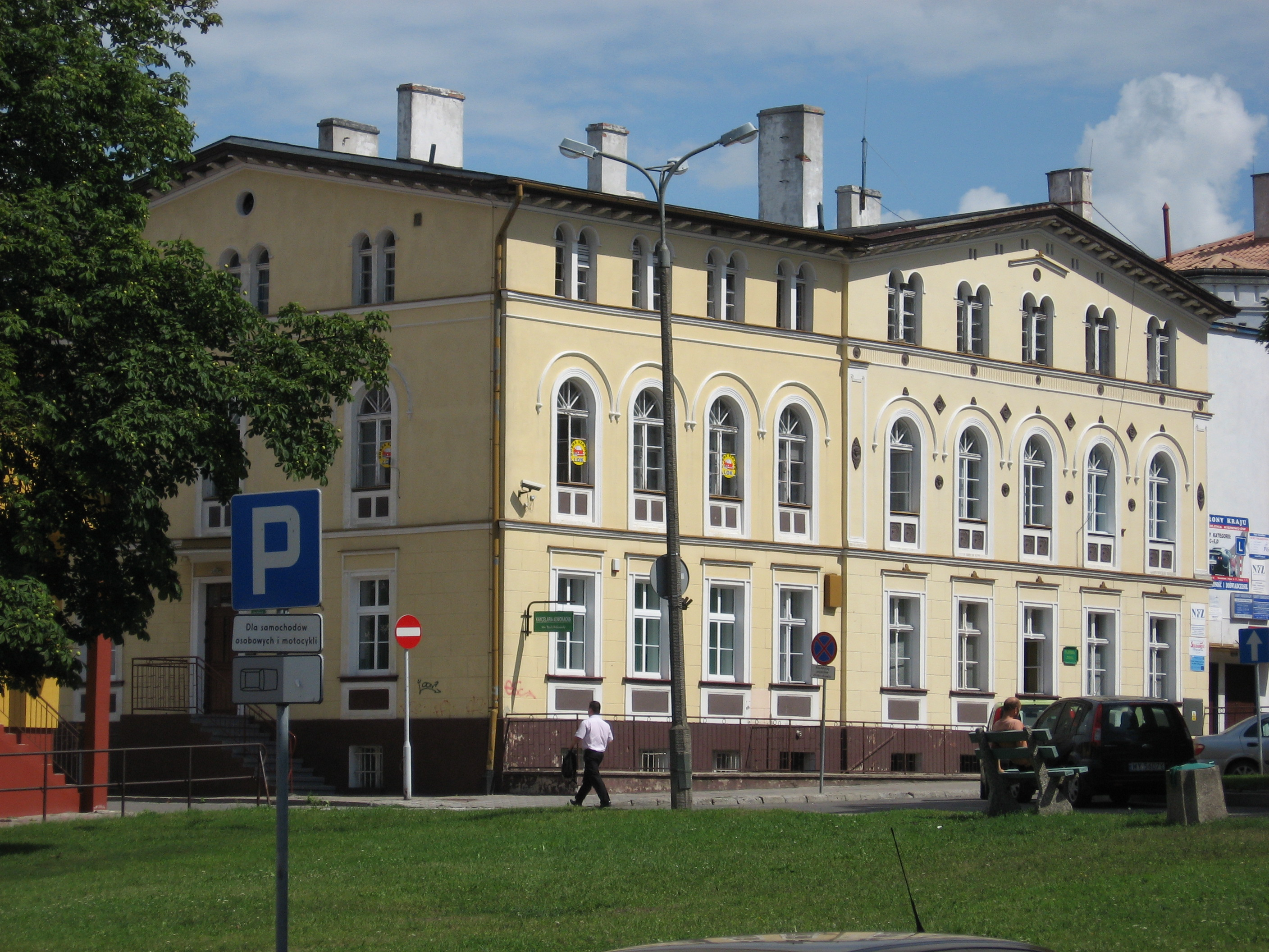 Kwidzyn, formerly Saint George hospital